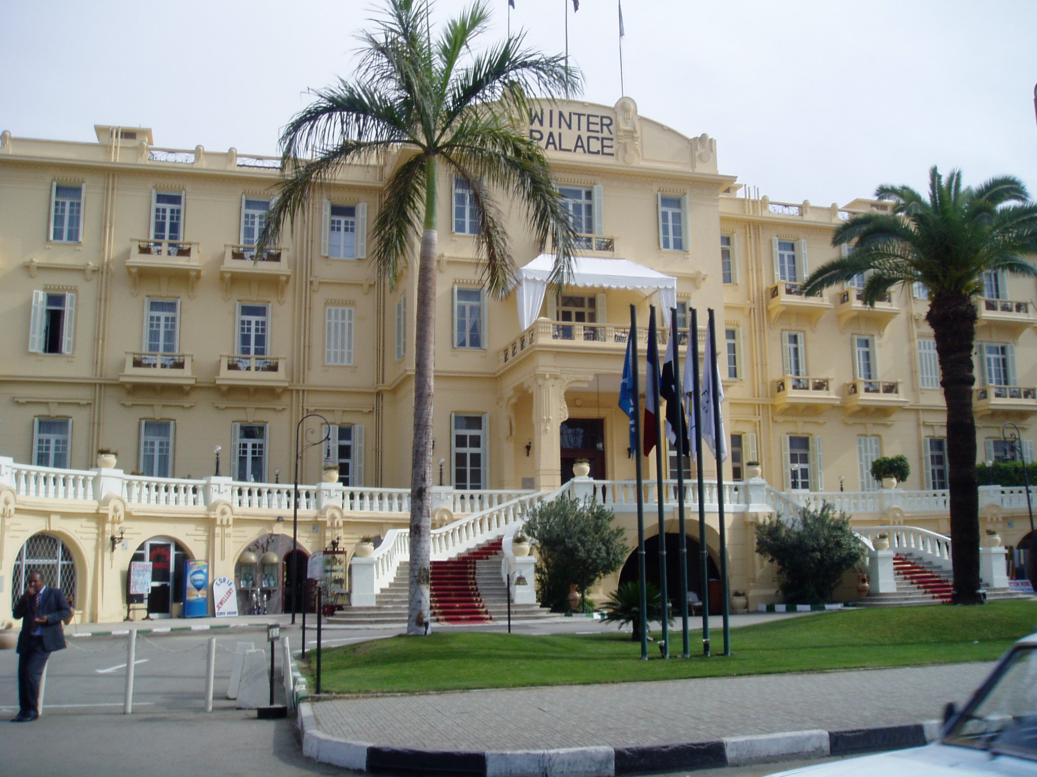 The legendary Old Winter Palace, Luxor, Egypt